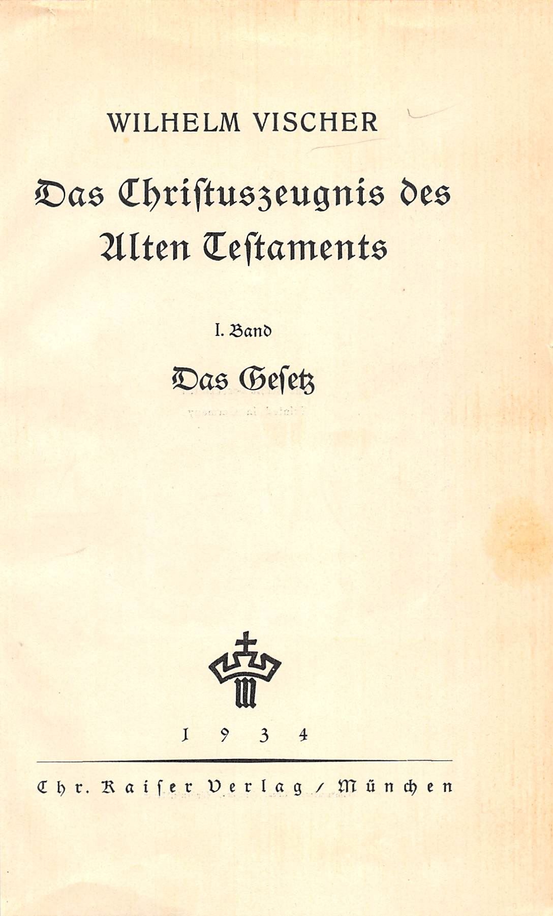 Das Christuszeugnis des Alten Testaments. Erster Teil: Das Gesetz, Zürich 1934.